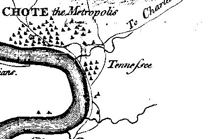 Detail of Henry Timberlake's 1762 (published 1765) "Draught of the Cherokee Country" showing Tanasi. Timberlake's spelling of Tanasi as "Tennessee" is one of the first widely published uses of this spelling of the state's namesake. Tanasi declined after 1730 and by Timberlake's time had been overshadowed by neighboring Chota. The bend in the river is Bacon's Bend.